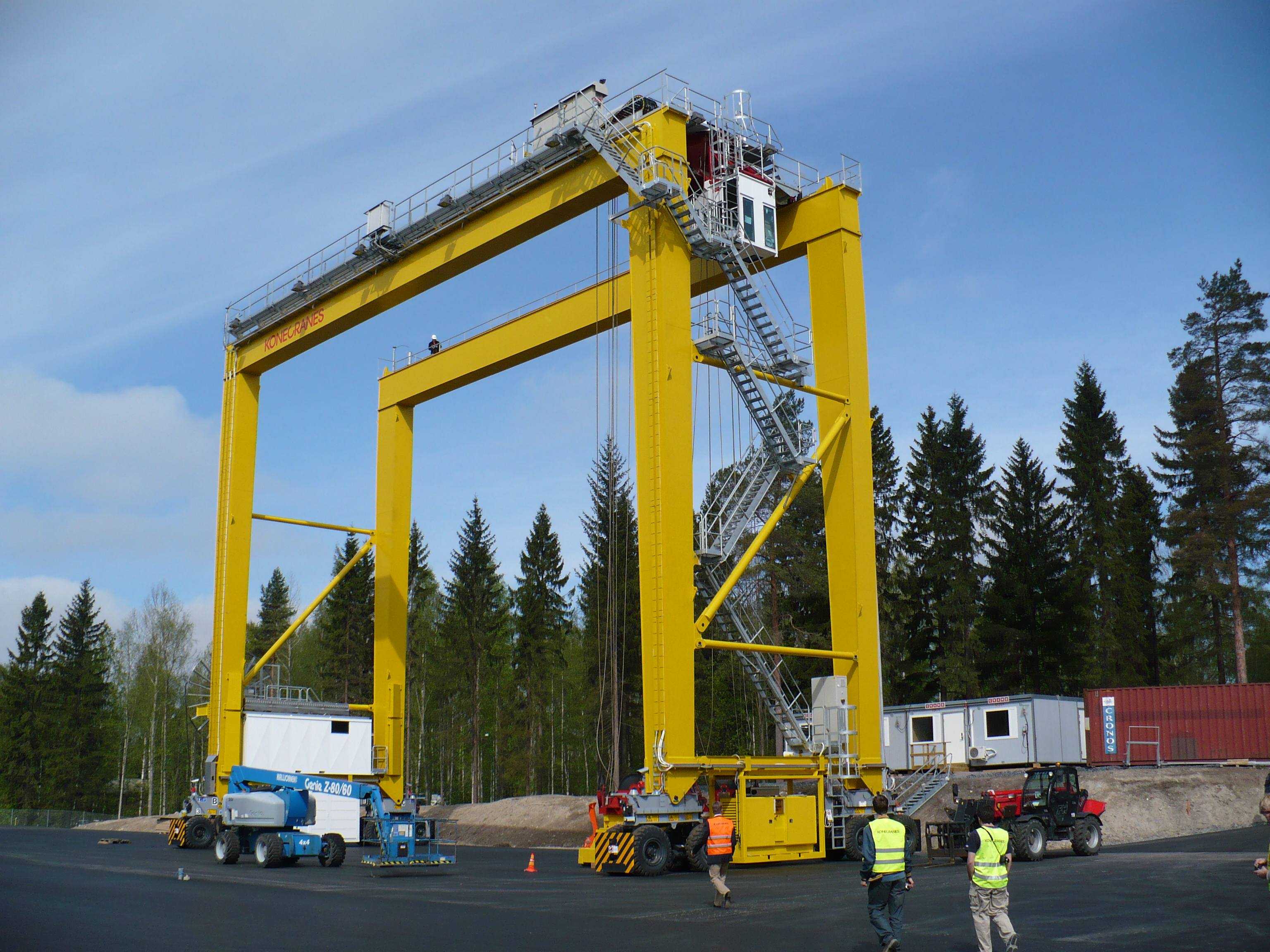 RTG aka Rubber tyred gantry crane by Konecranes in Finnish factory at Hyvinkää test site